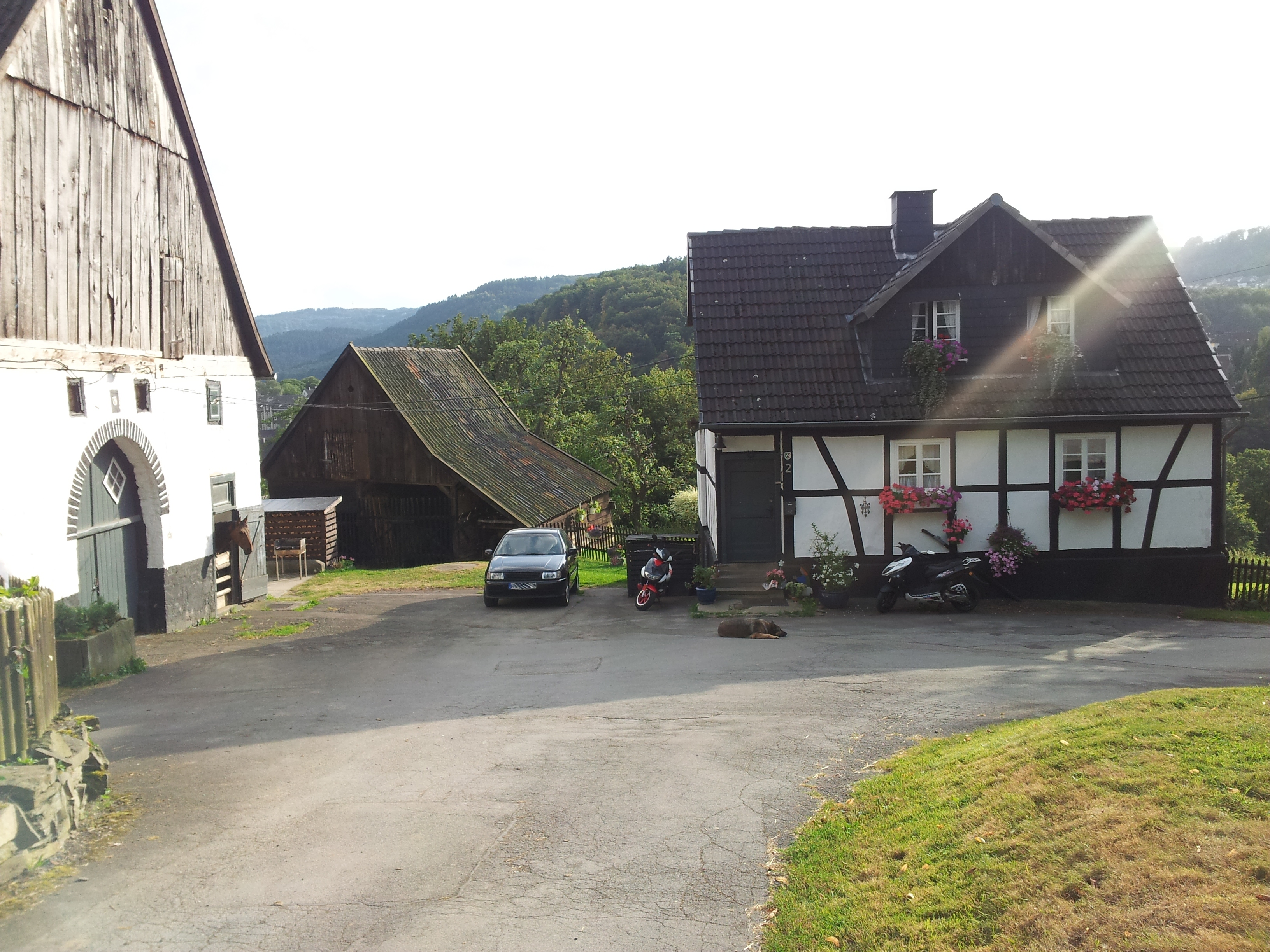 Farm Dümpel in Nachrodt-Wiblingwerde, Dümpel 2, 4